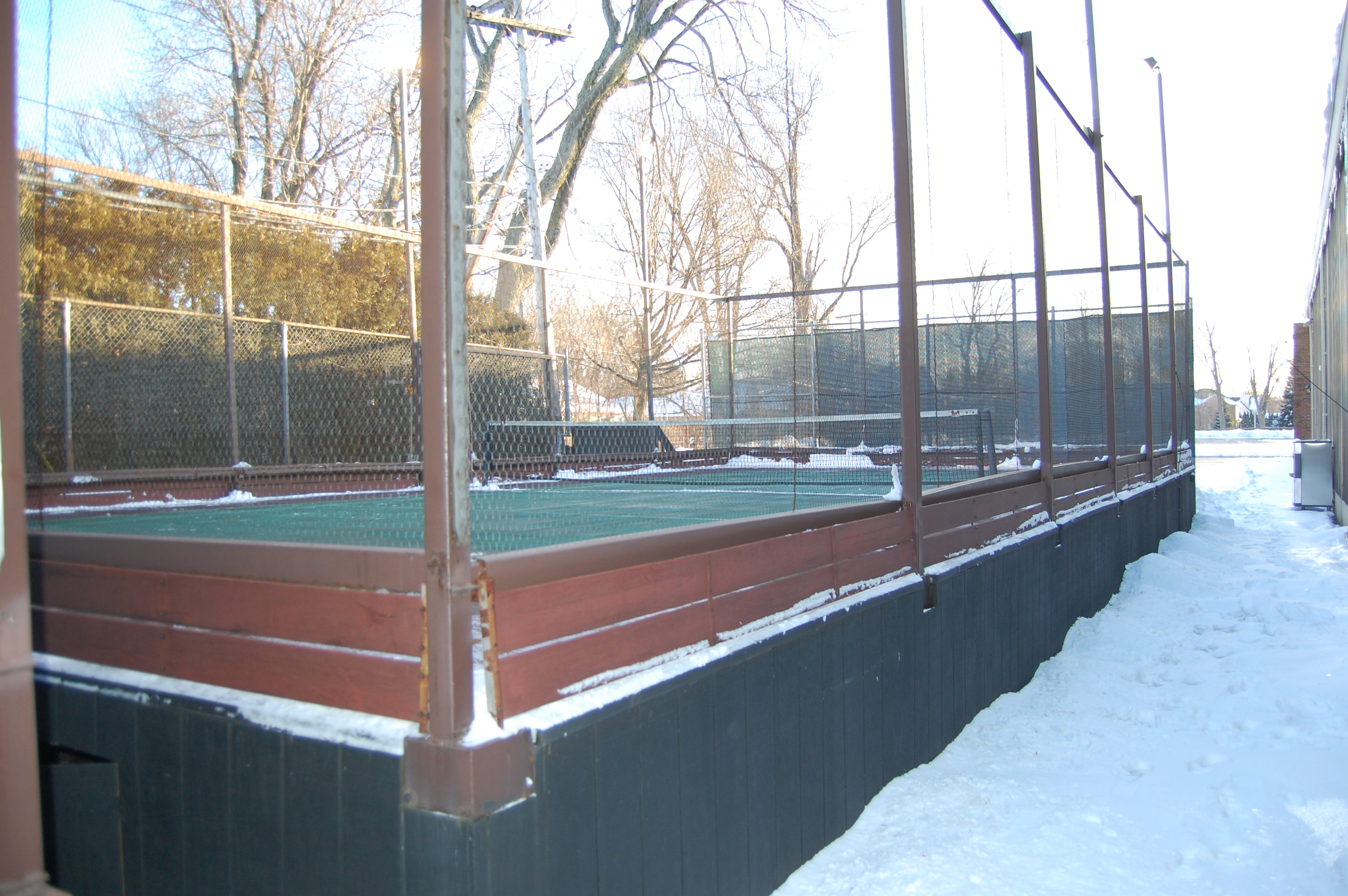 A platform tennis court in Michigan